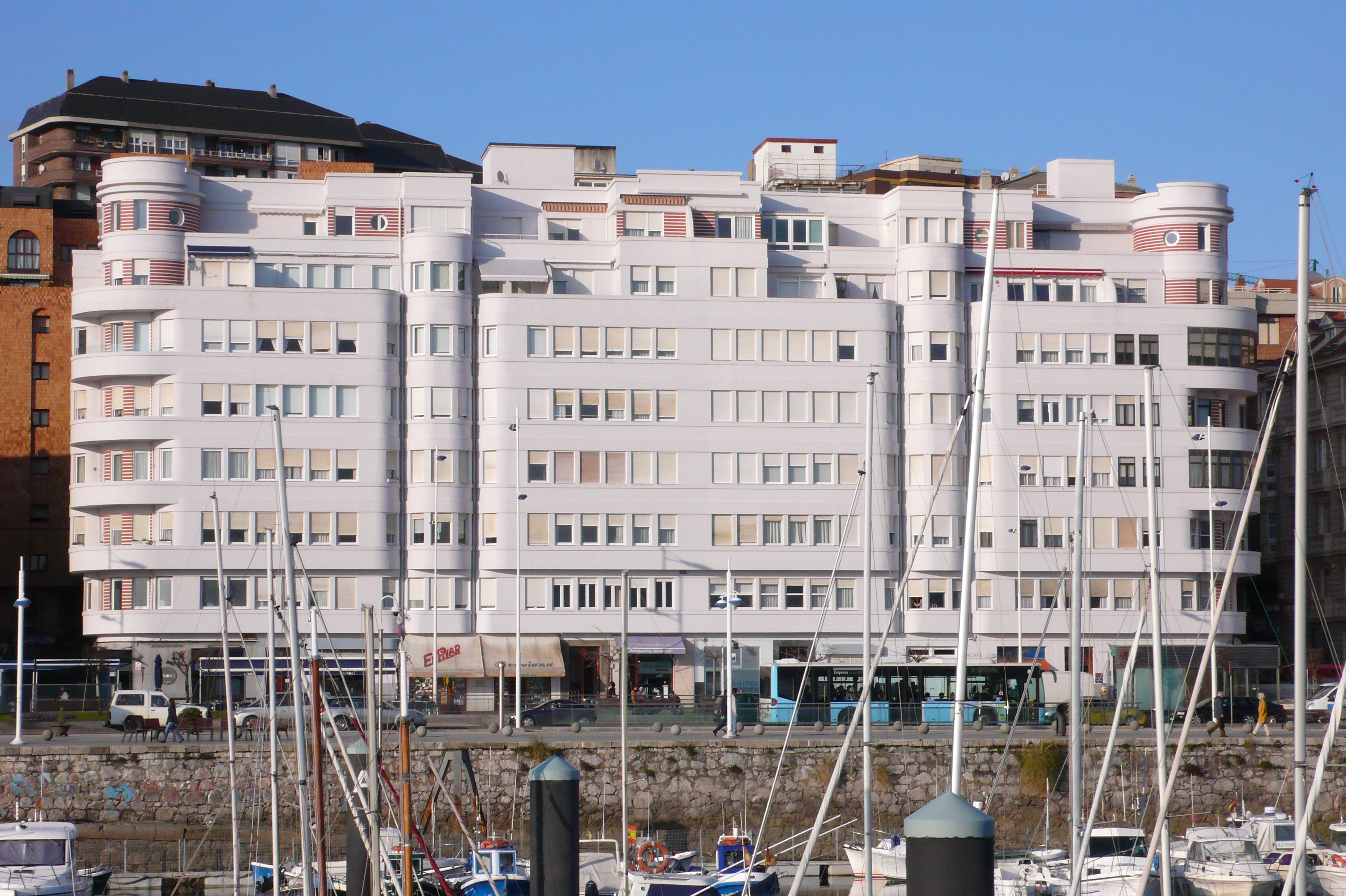 Siboney Building